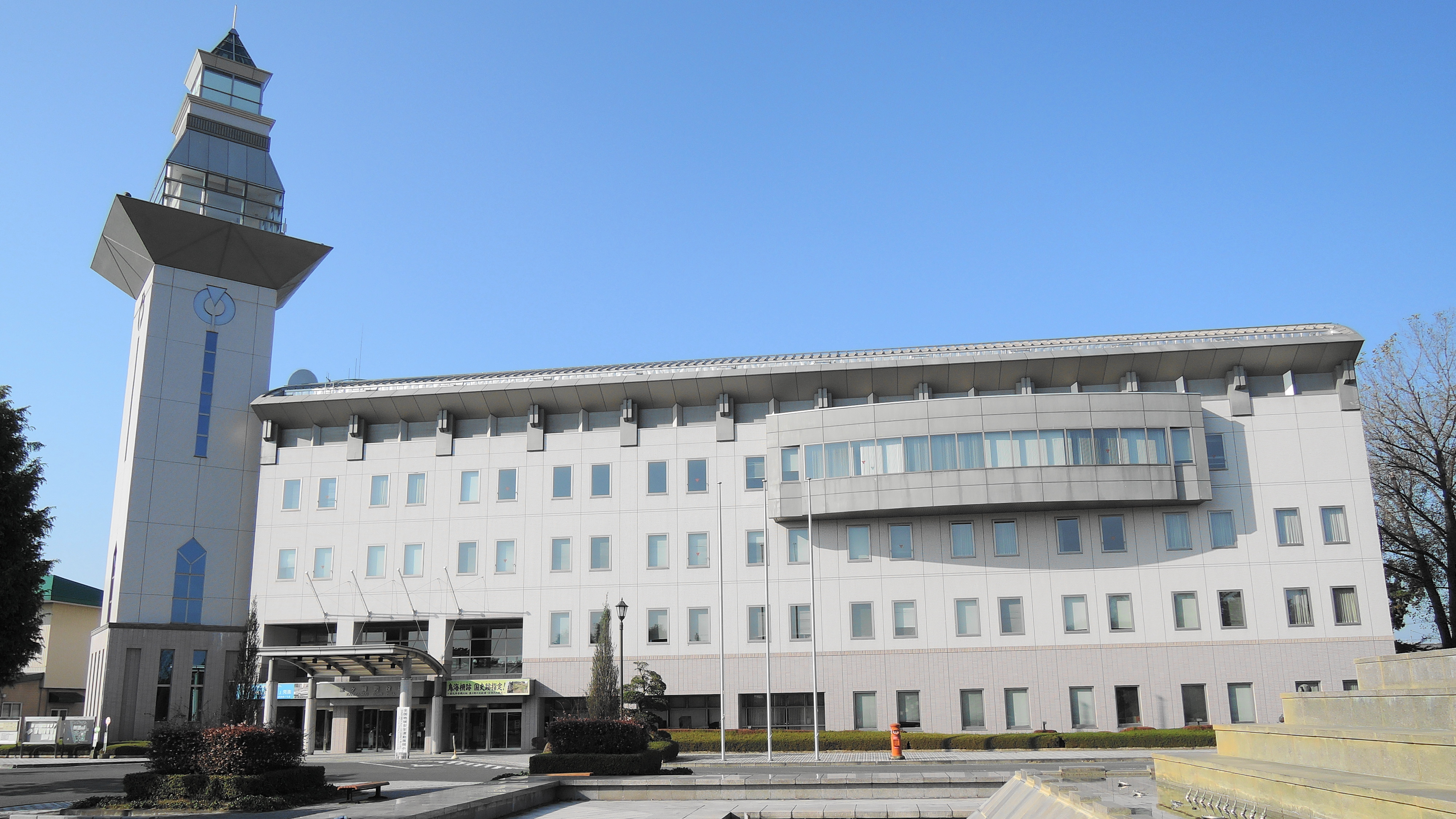 Kabegasaki town hall,Iwate prefecture,Japan